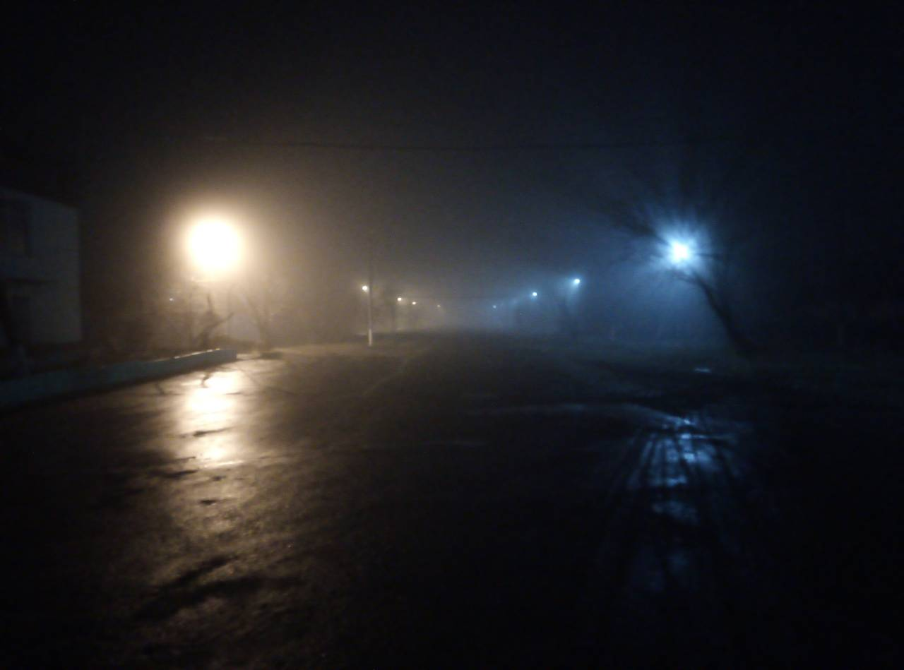 Centralna street in Zatyshshia, evening